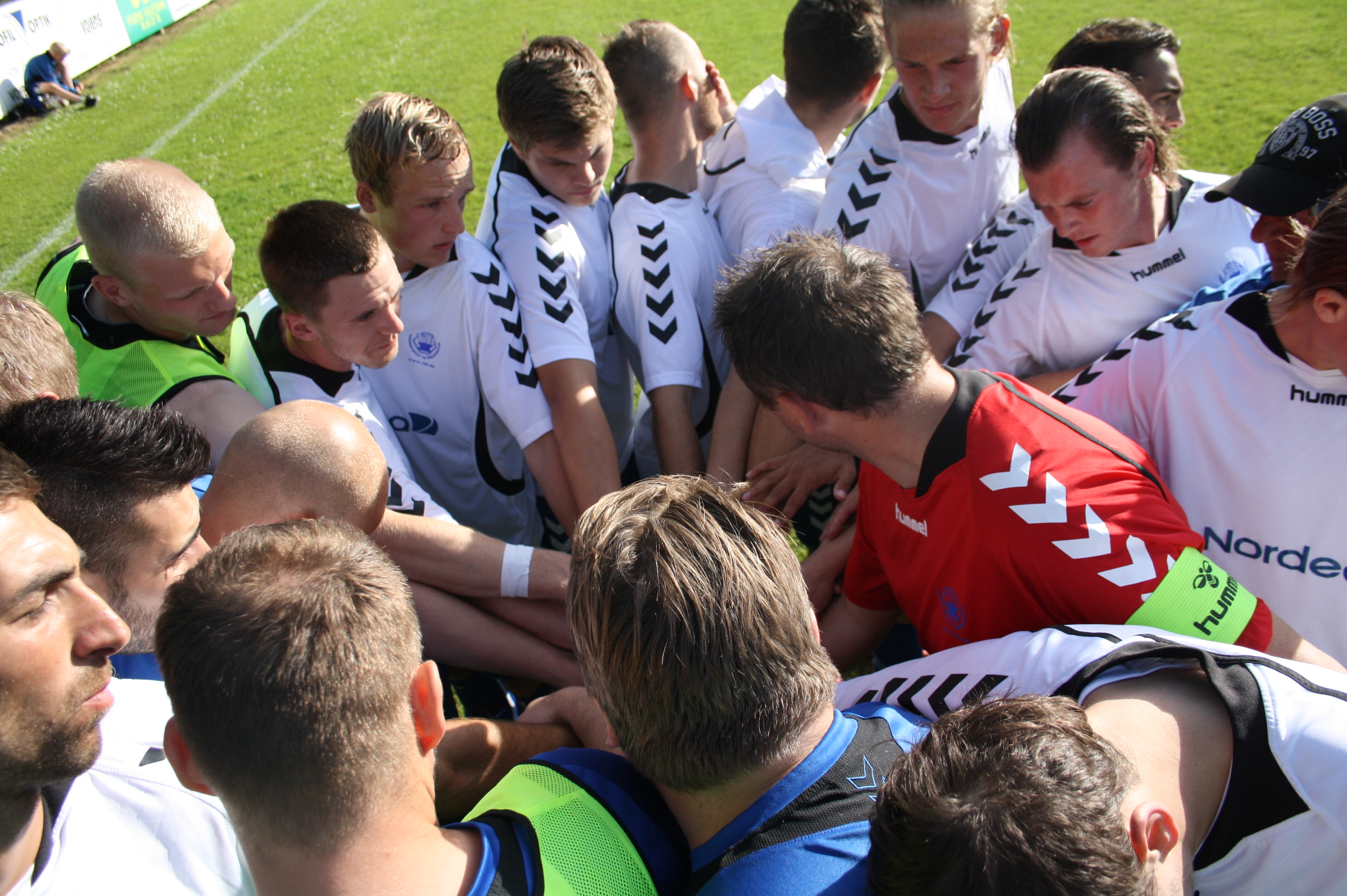 team mates